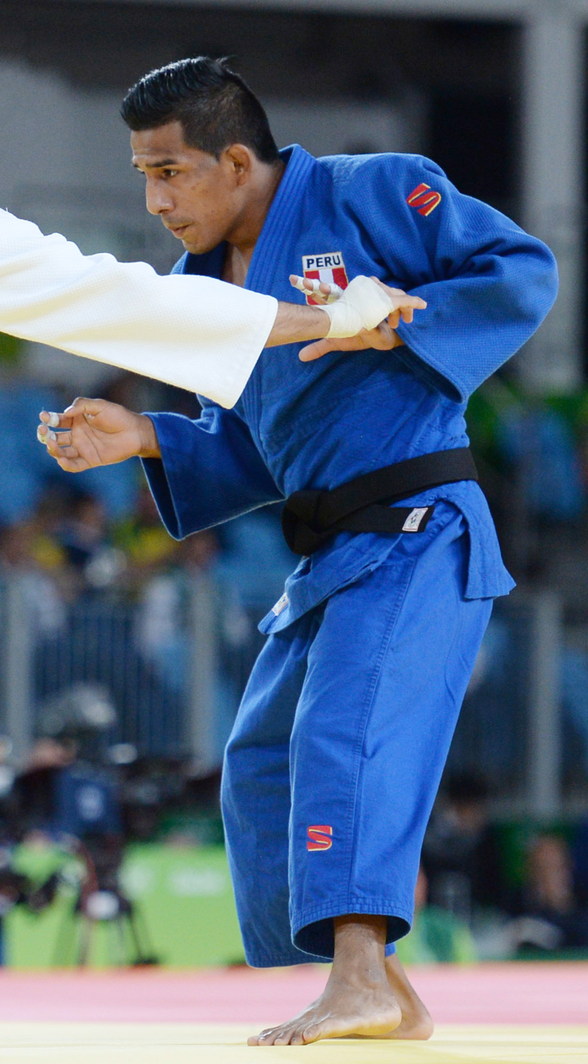 Judo at the 2016 Summer Olympics, Safarov vs Postigos